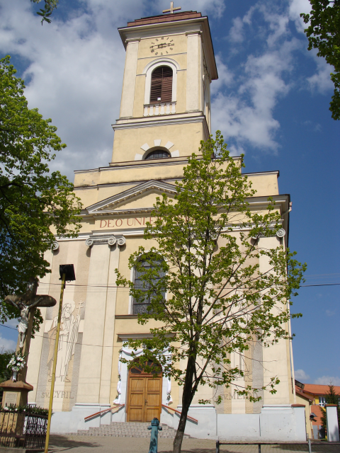 Church initiated to TRANSLATION OF THE VIRGIN MARY in Staré